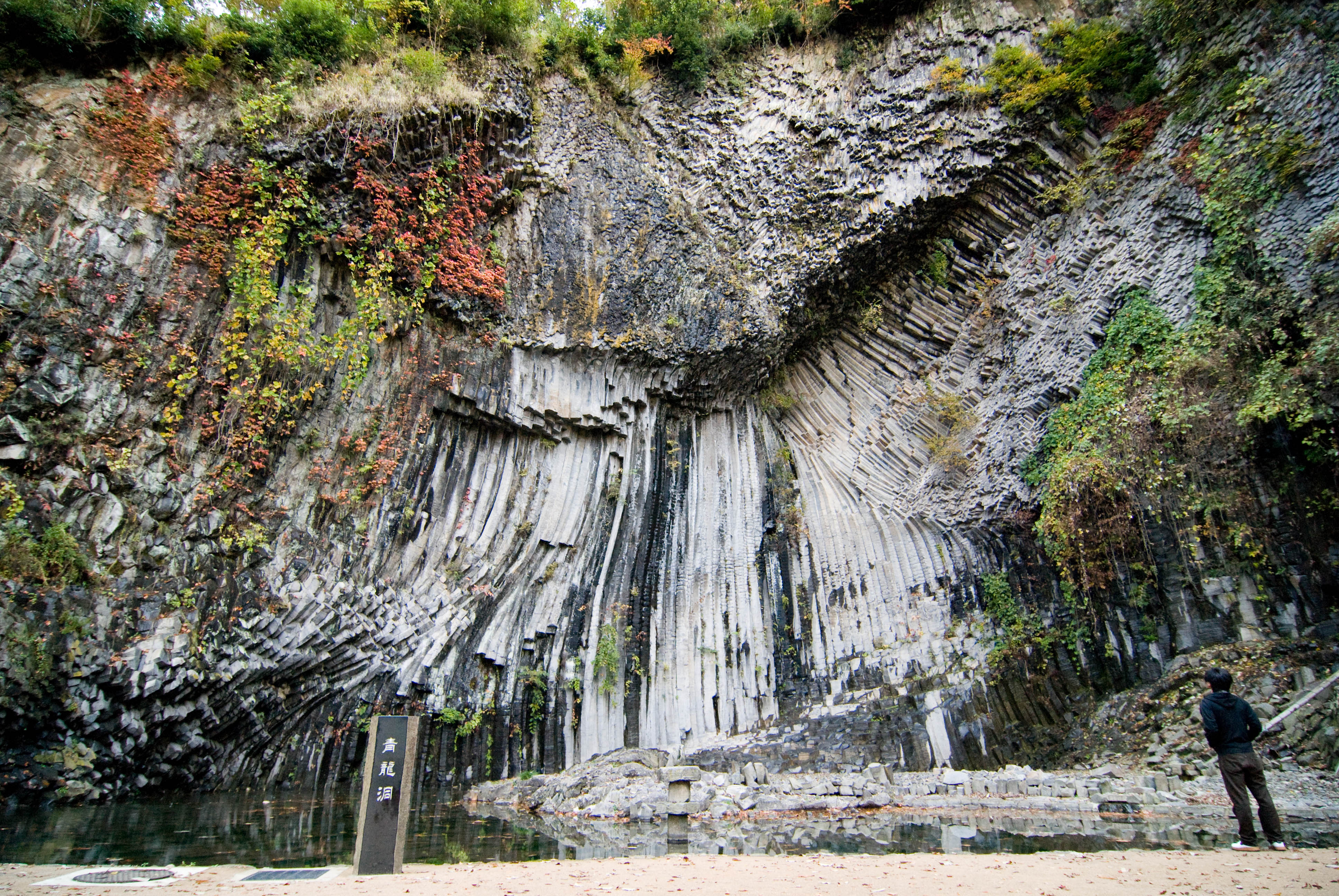 Seiryudo cave From Genbudo Park in Toyooka,Hyogo Prefecture, Japan.